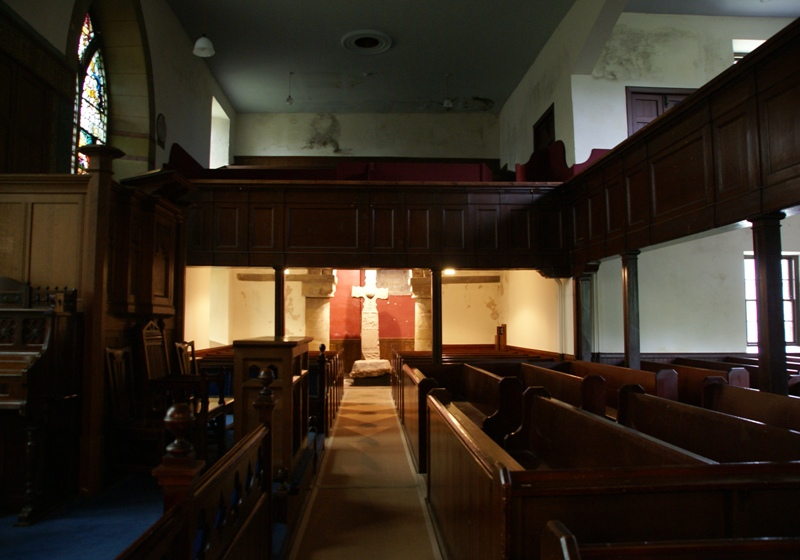 St Serf's Church, Dunning, Perth and Kinross, Scotland - interior, with Dupplin Cross